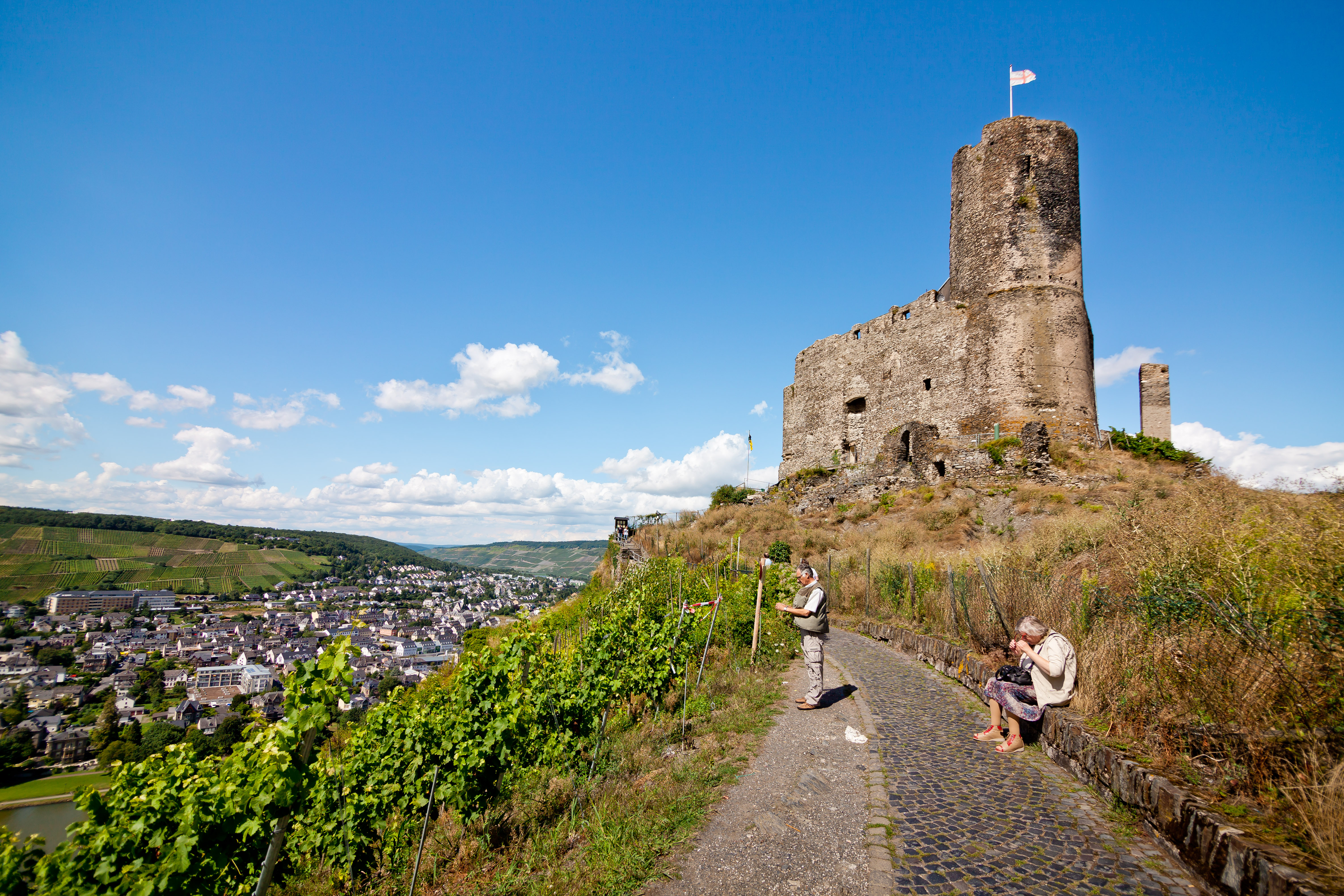 The hill castle Landshut in Bernkastel-Kues, Germany, and view over Kues across the Moselle. The castle fell victim to fire in 1692 and has since been a ruin.